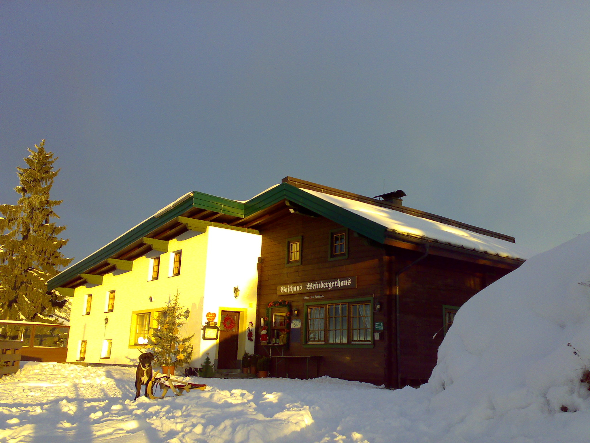 Weinbergerhaus in winter